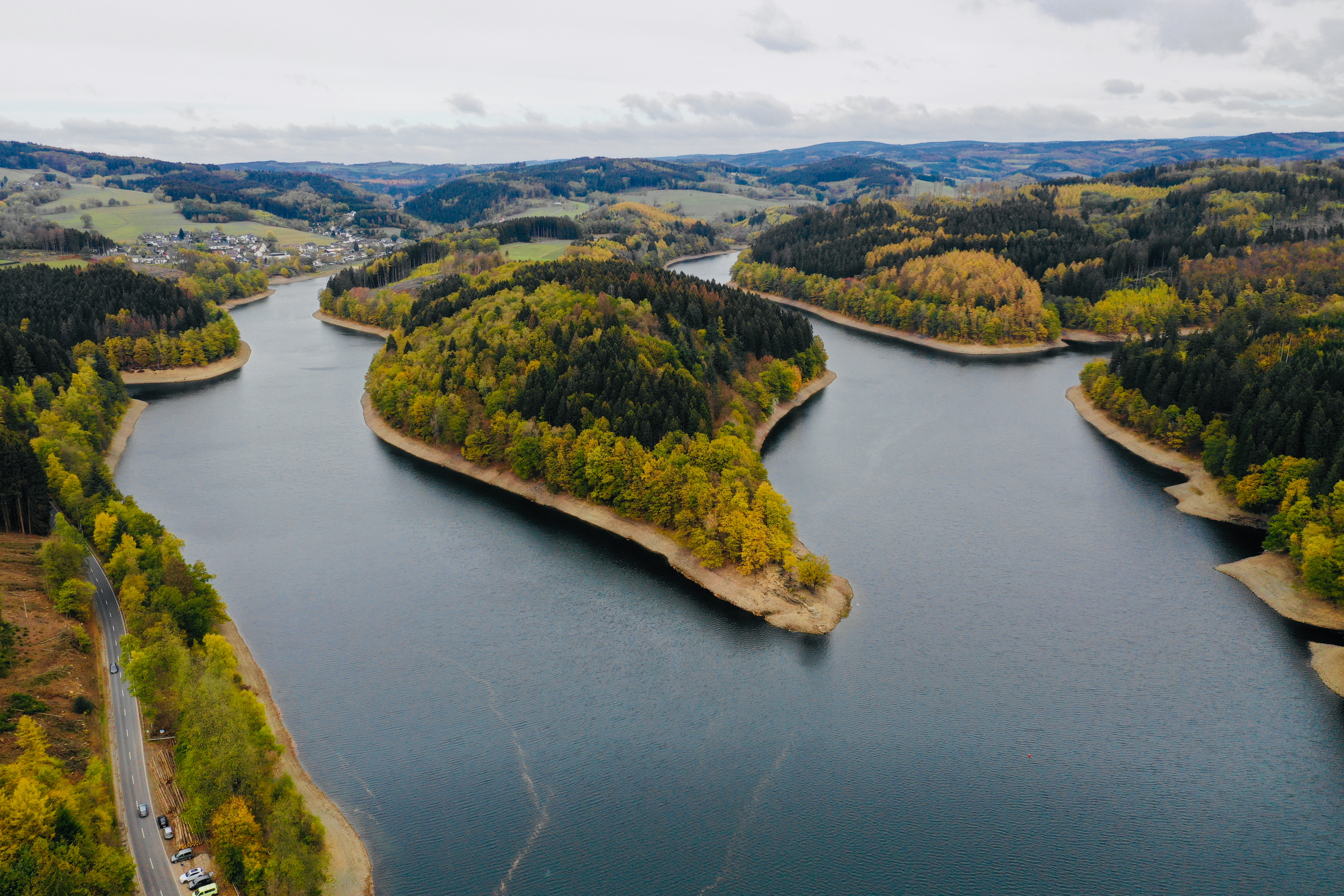 It’s a bird eyes view over the Aggerthalsperre in the Bergisches Land. It’s shot on a high of 100 meters above the dam of the Aggerthalsperre